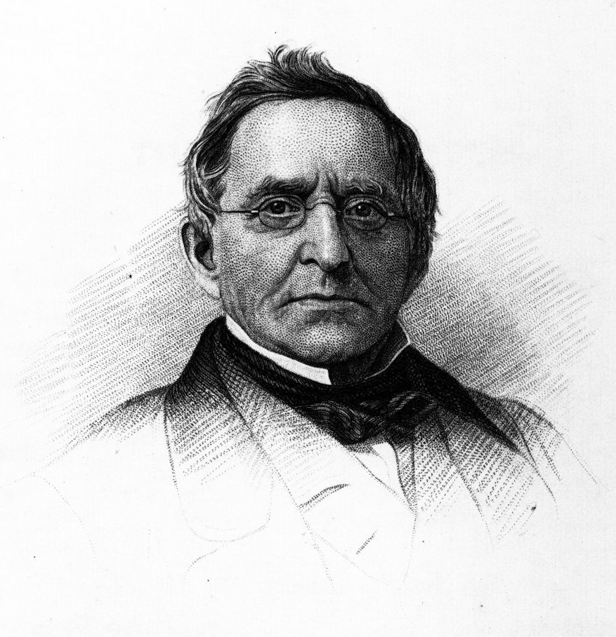 Brewer, philanthropist, and founder of Vassar College Matthew Vassar.